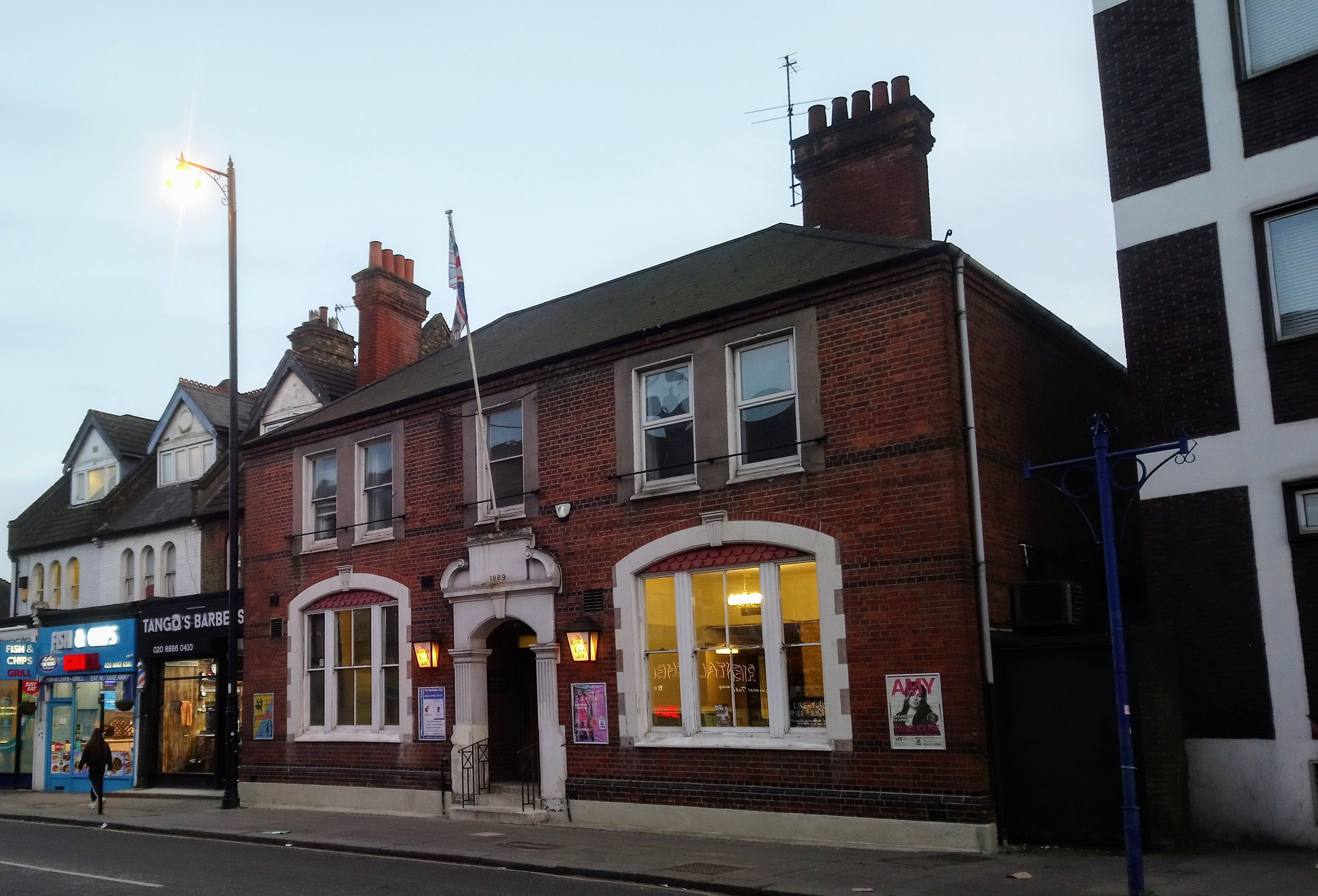 View of Southgate Club, Chase Side, London N14 5BP